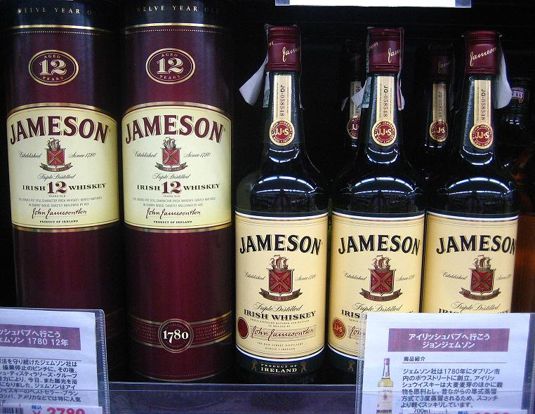 Bottles of Jameson Irish Whiskey for sale at a liquor store in Fukushima, Japan. Picture was taken with a Canon Power Shot SD450 Digital Elph camera and modified using a Paint Shop program on a laptop computer.